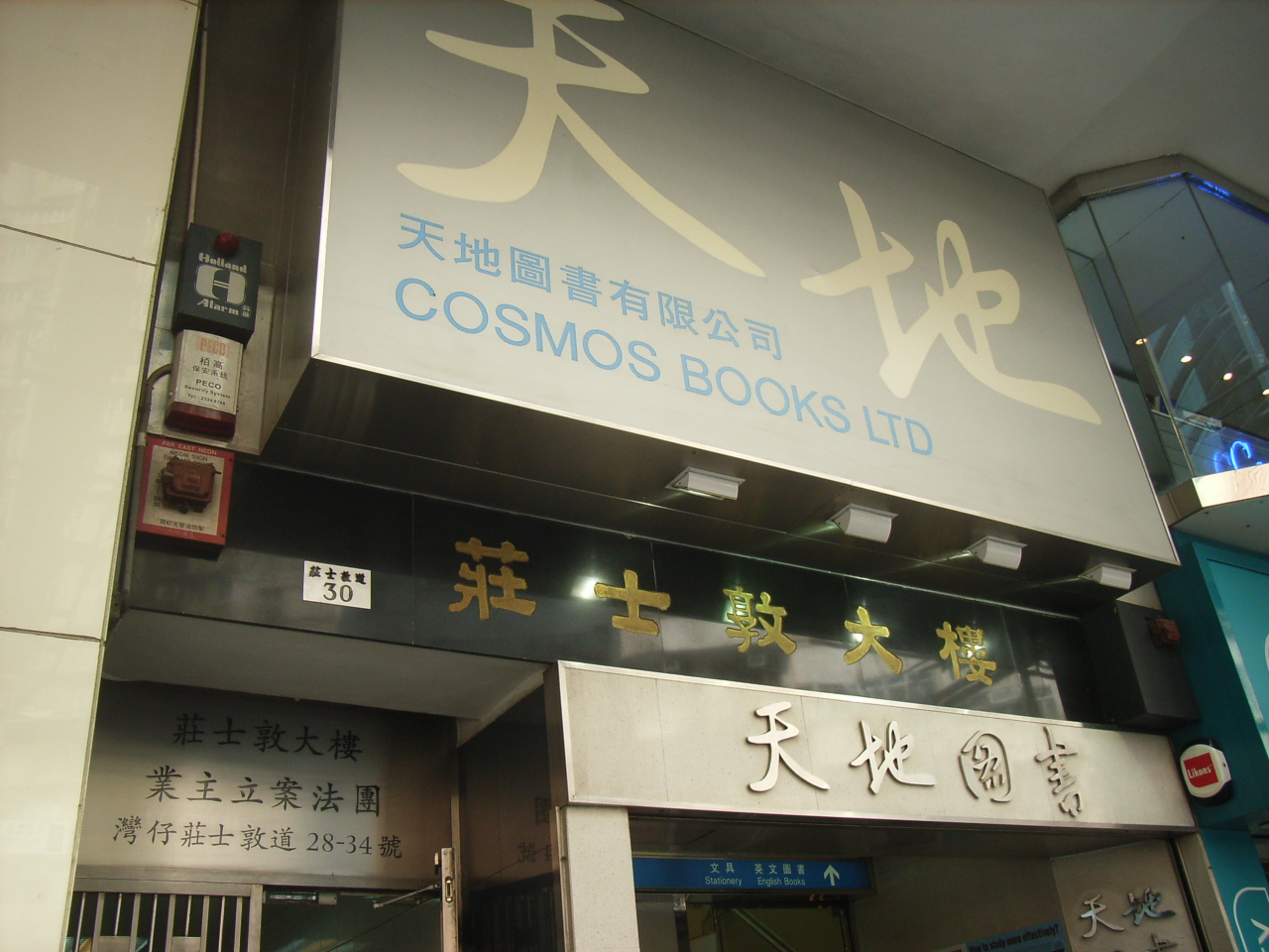 灣仔舊區街道 Wanchai old streets, Hong Kong. (A1 Wong East).